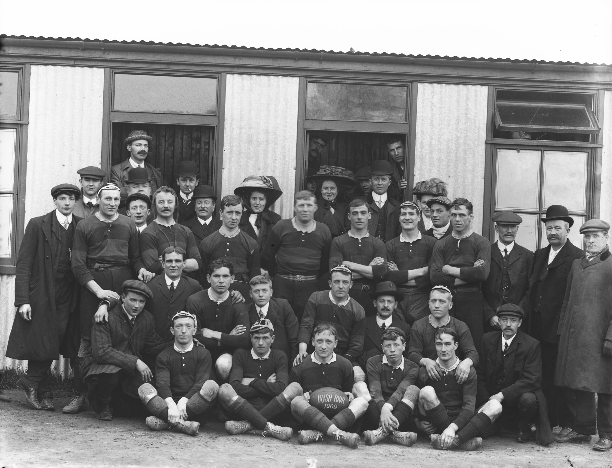 This, we believe, is a Welsh rugby team from Aberavon on their Irish Tour in 1909. They had played a match at the Mardyke in Cork the day before this photo was taken, and there's a very scathing report on the play in the Freeman's Journal: "The match between Aberavon (Wales) and Cork County was played yesterday on the Mardyke grounds. The game right through was very rough, and presented no brilliant features whatever. Result: Aberavon - 1 try; Cork - Nil." Not sure where this photo was taken, but most probably at some sports ground in Waterford. As usual, any and all suggestions will be entertained... Date: Tuesday, 13 April 1909 NLI Ref.: P_WP_1896a